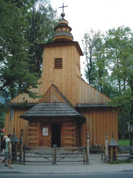 Little church at Pęksowy Brzyzek National Cemetery in Zakopane, photo by Jadwiga